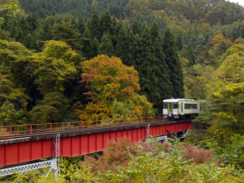 Red Bridge